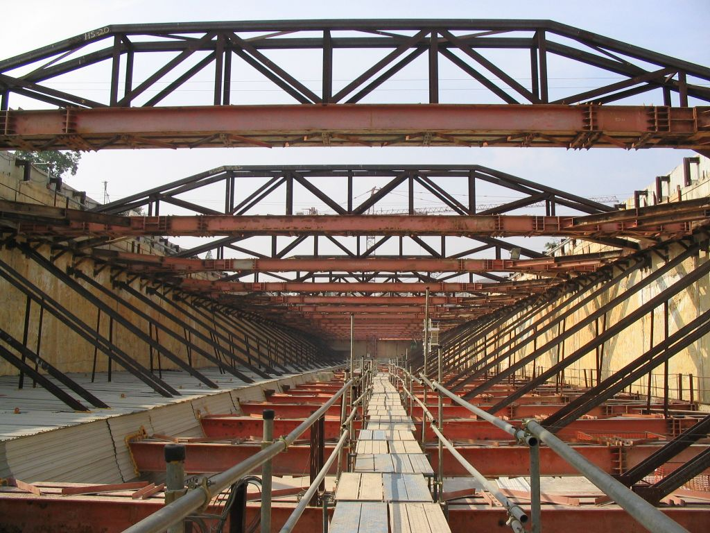 古洞站-預留大堂結構-落馬洲方向 Future Concourse of Kwu Tung Station, view towards Lok Ma Chau Station